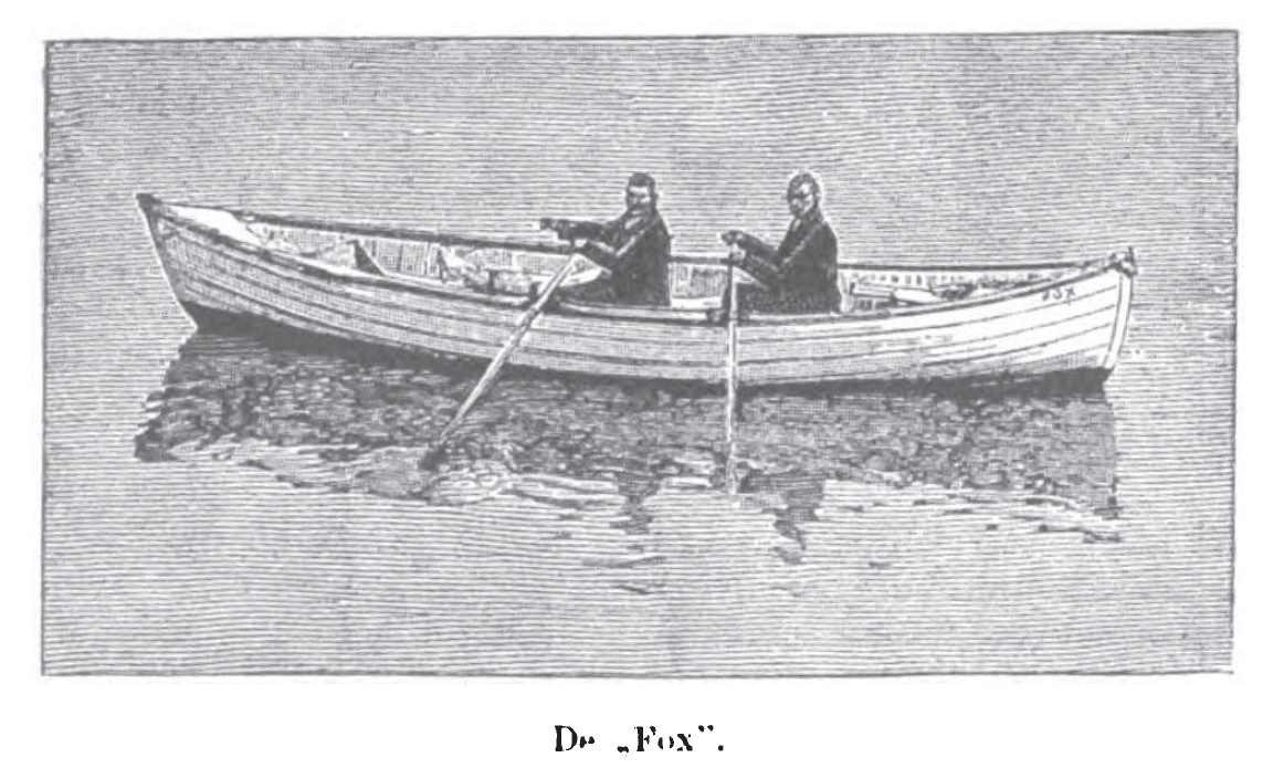 Drawing of Frank Samuelson and George Harbo's rowboat "The Fox." They used this boat in the first recorded rowboat crossing of the Atlantic Ocean.